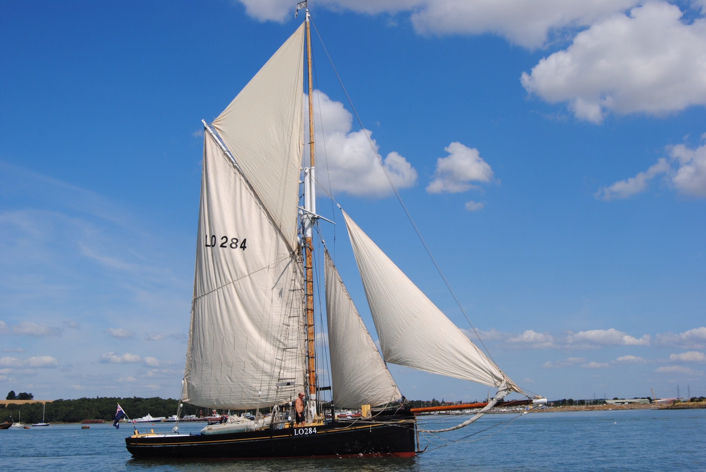 Bawley Doris from Leigh on sea